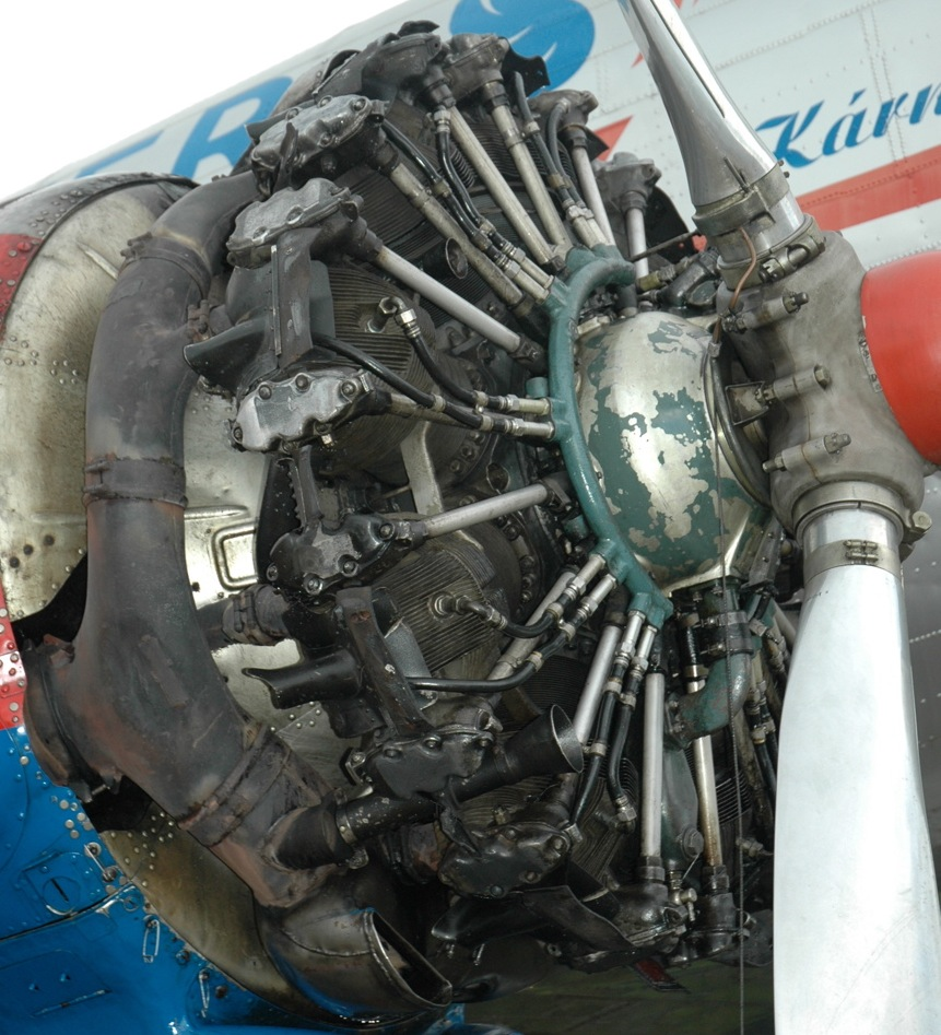 Shvetsov AS-62IR radial piston engine, mounted on Lisunov Li-2